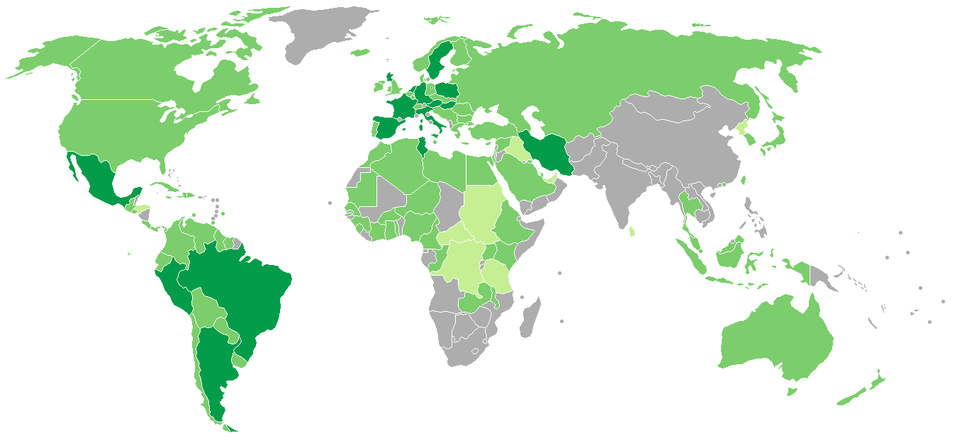 Qualification for the 1978 FIFA World Cup Country didn't participate Country withdrawed or entry didn't accepted by FIFA Country participated in the qualification tournament Country qualified to the finals